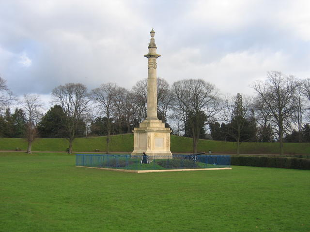 Hereford Castle The green area in which the memorial stands was once the site of Hereford Castle. By the end of the English Civil War the castle was in much need of repair. Instead however is was largely demolished and the motte, visible in the trees was much reduced. Toady this is an open public area.